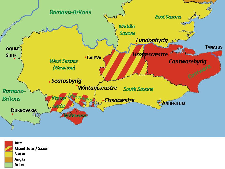 Map of south east Britain c.575AD showing approximate areas of Jutish settlement according to the sources (Bede)